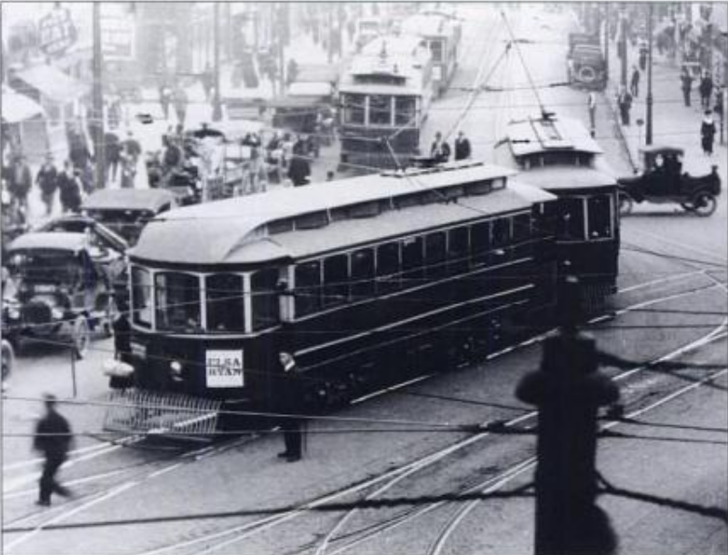 Toledo streetcars in 1925. Original caption: “TRY&L car No. 325 is at the intersection of Summit, Cherry, and St. Clair Streets in this c. 1925 photograph”